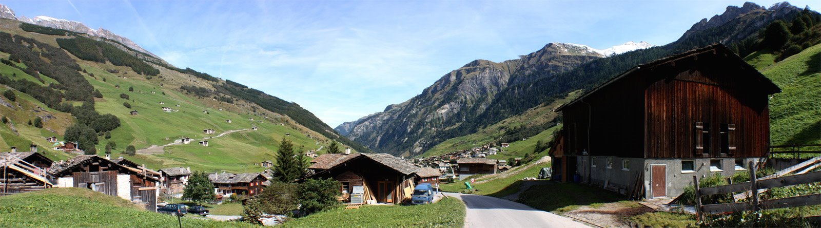 View looking north over Vals, Switzerland